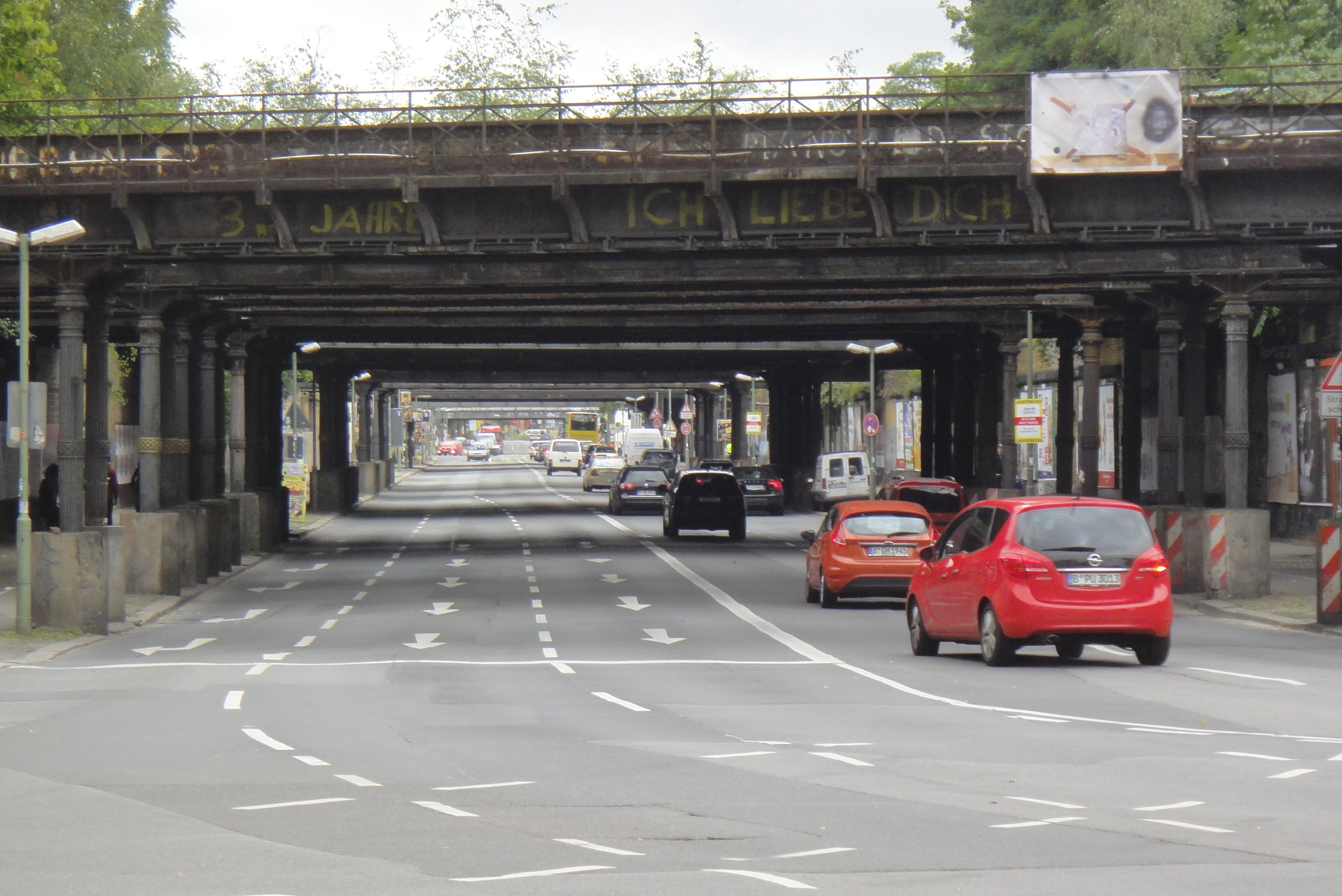 Yorckbrücken, Berlin, seen from the east (Kreuzberg)